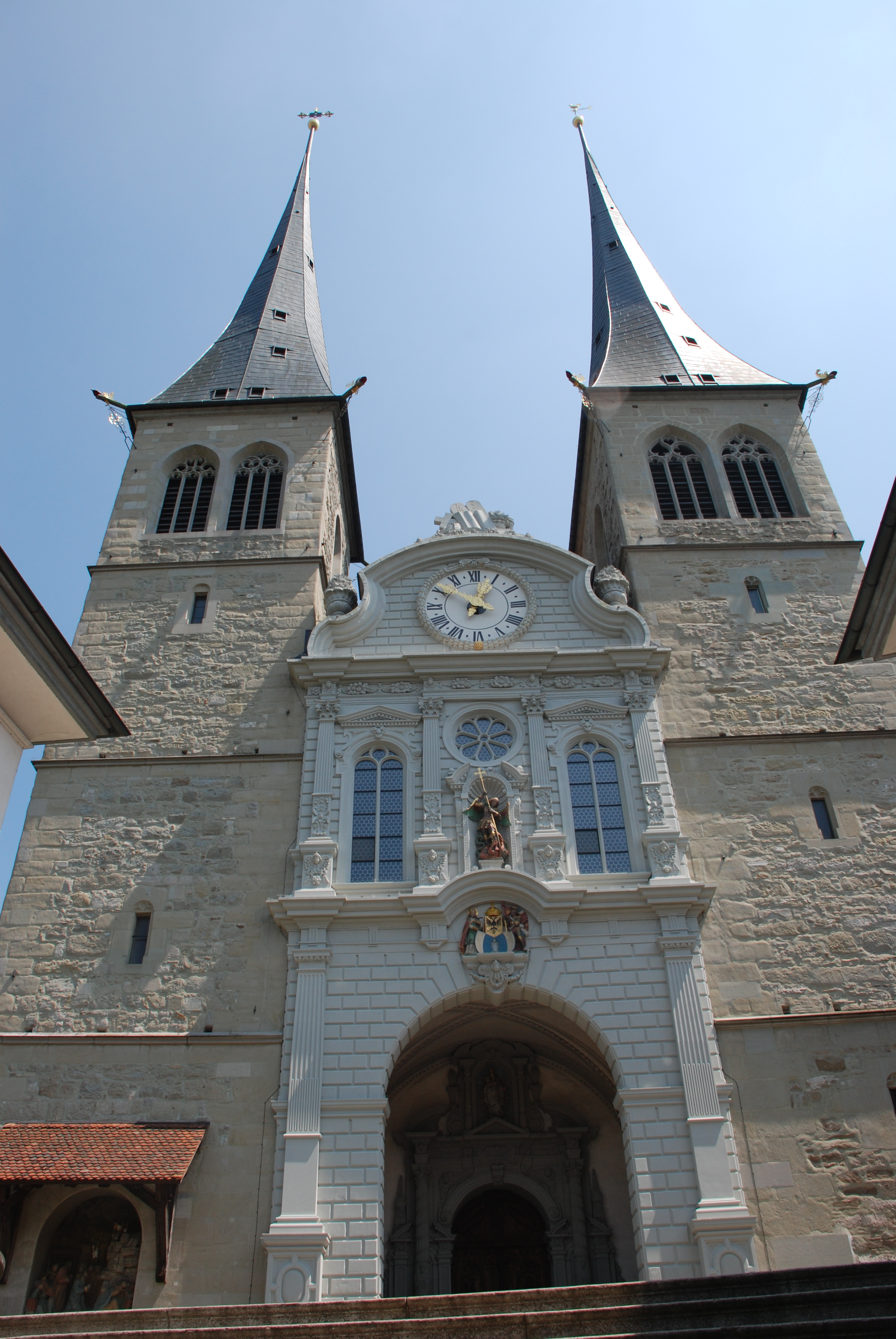 Church in Lucerne